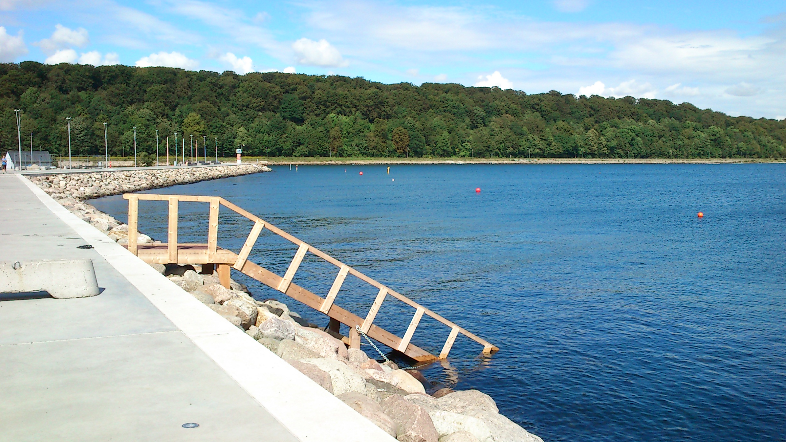 The open water swimming lane at Aarhus Docklands. The lane is outlined by red buoys.